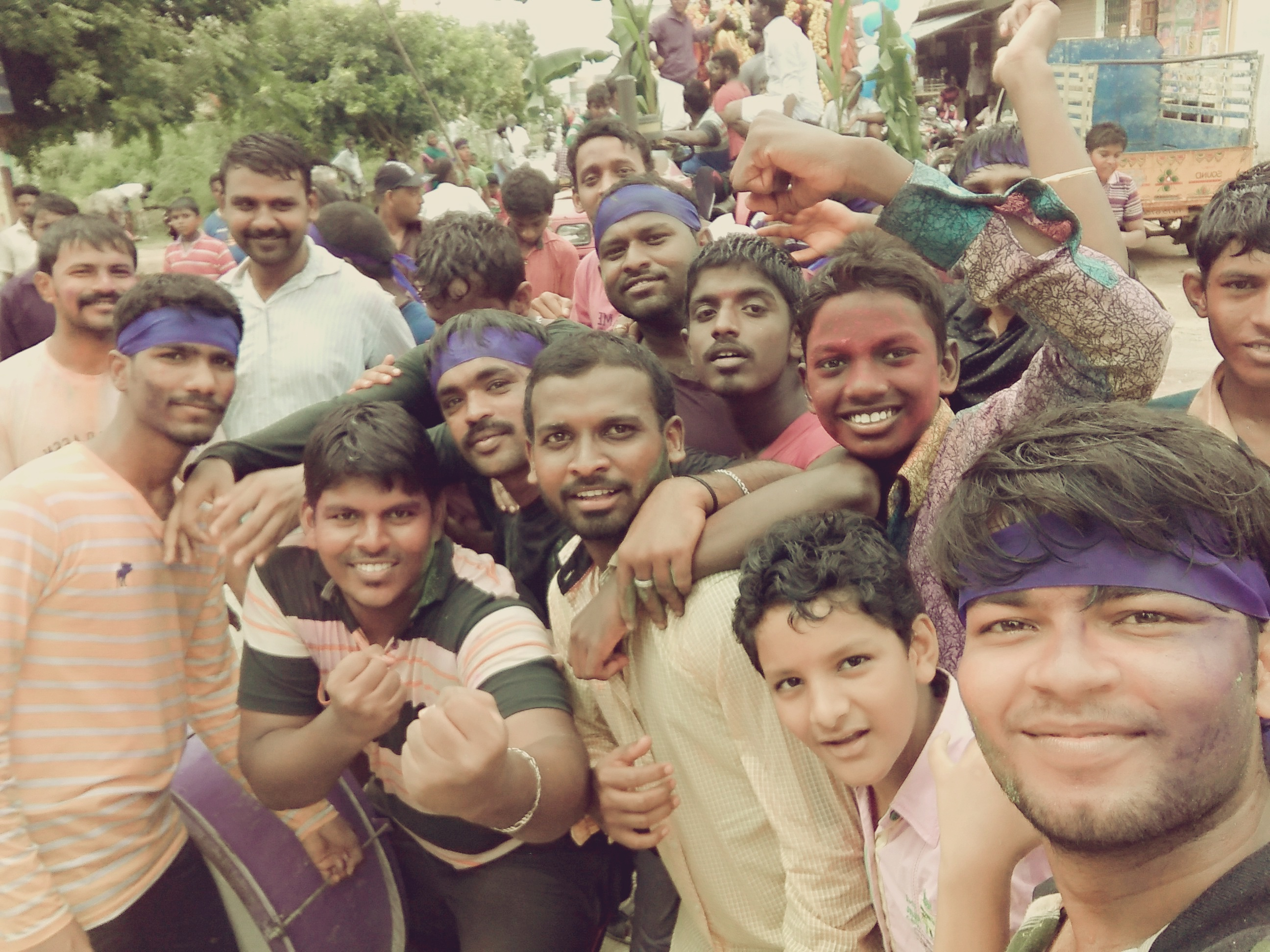 vinayagar chaturthi 1